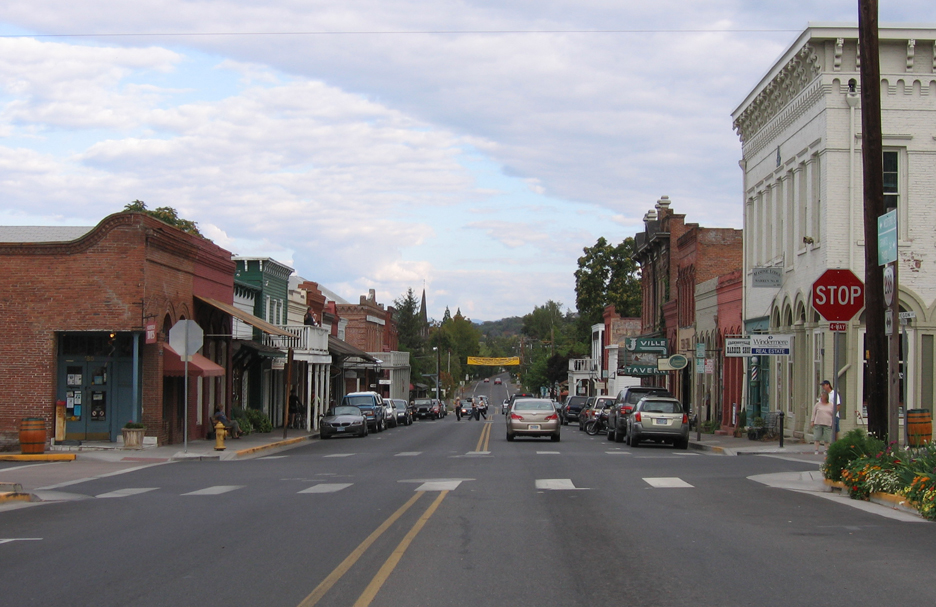 California Street in Jacksonville